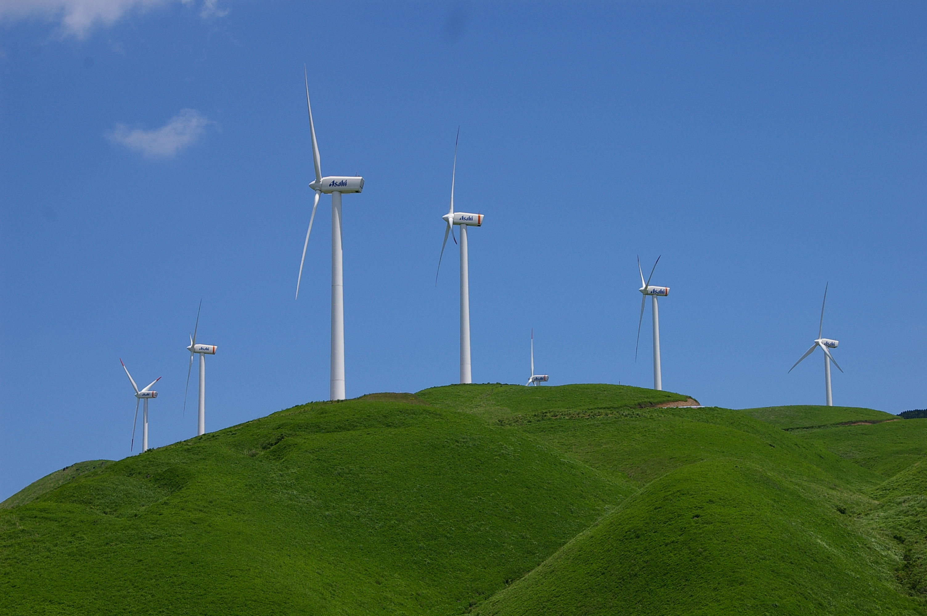 Aso Nishihara Wind Farm at Kumamoto Pref., Japan.